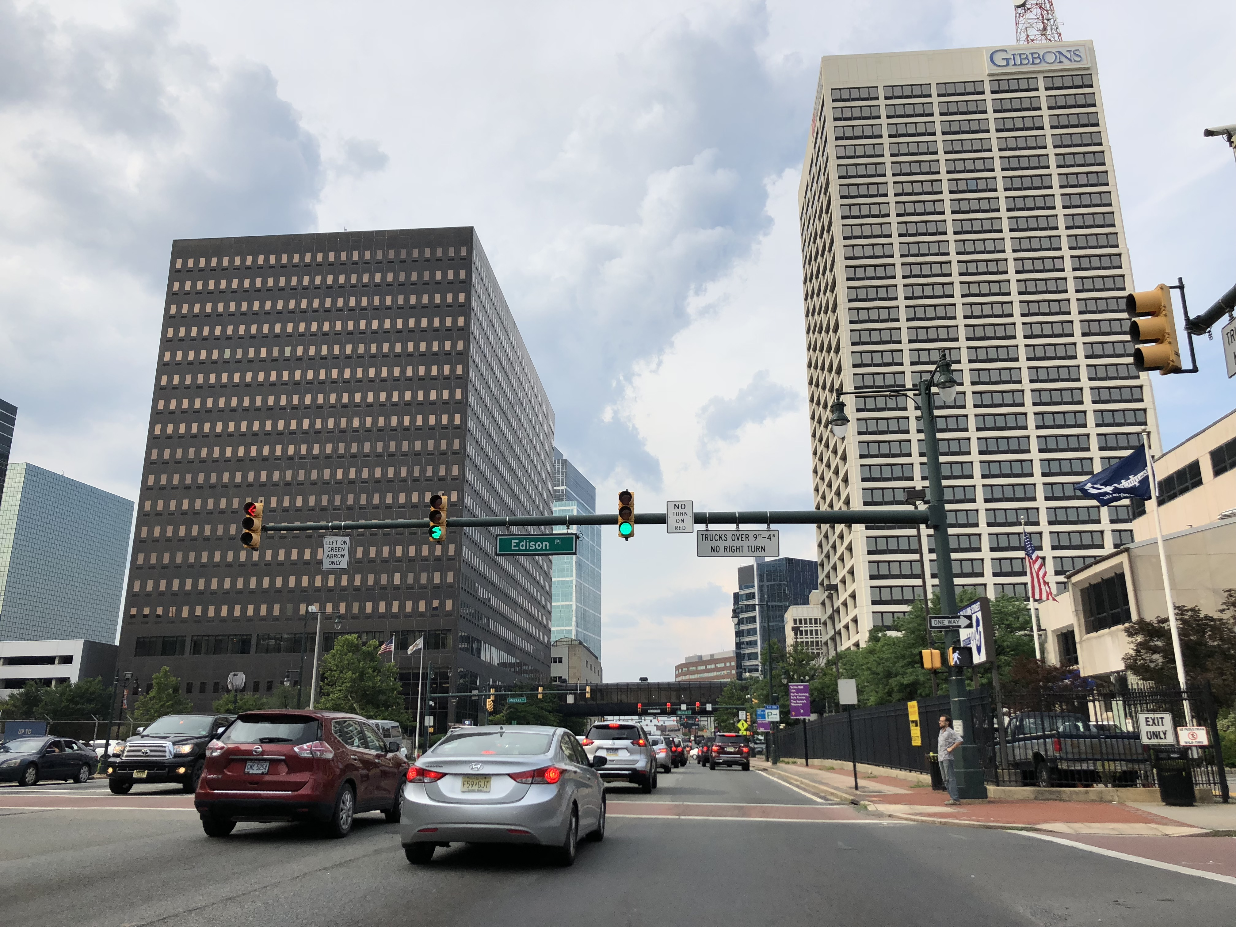 View north along New Jersey State Route 21 (McCarter Highway) at Edison Place in Newark, Essex County, New Jersey